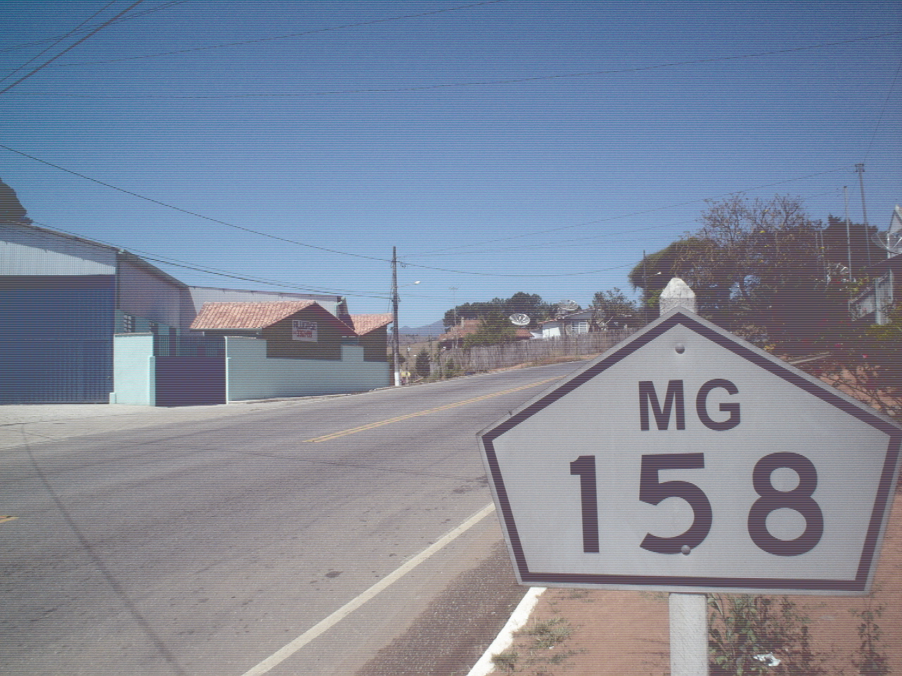 Road MG-158 in Itanhandu, Minas Gerais, Brazil